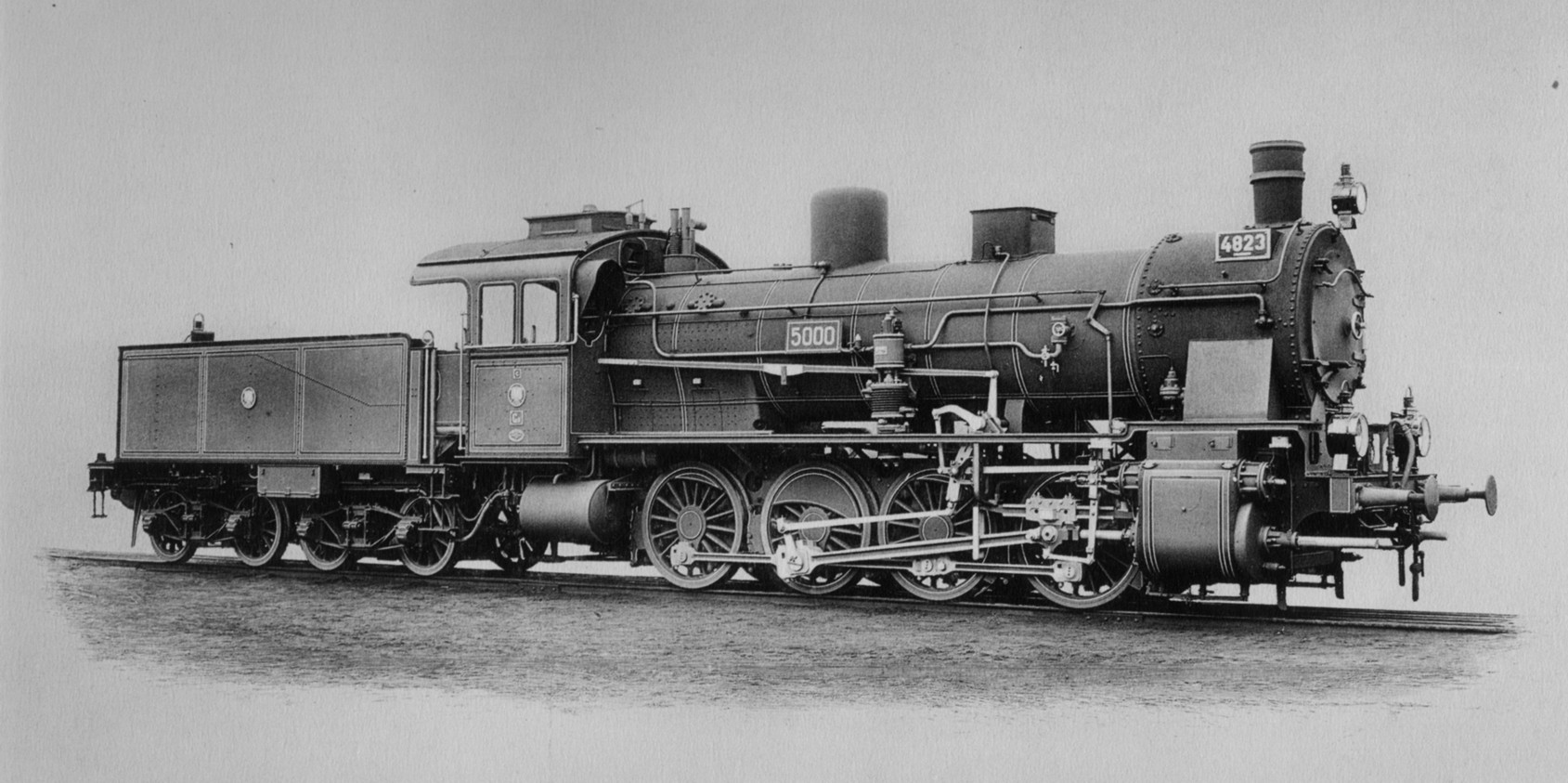 Locomotive no. 5000 built by Orenstein & Koppel company, Germany; finished in 1913 and delivered to Royal Prussian State Railways.